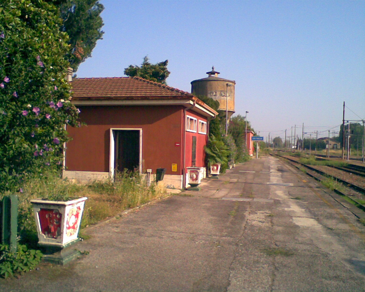 Ostiglia station, Italy